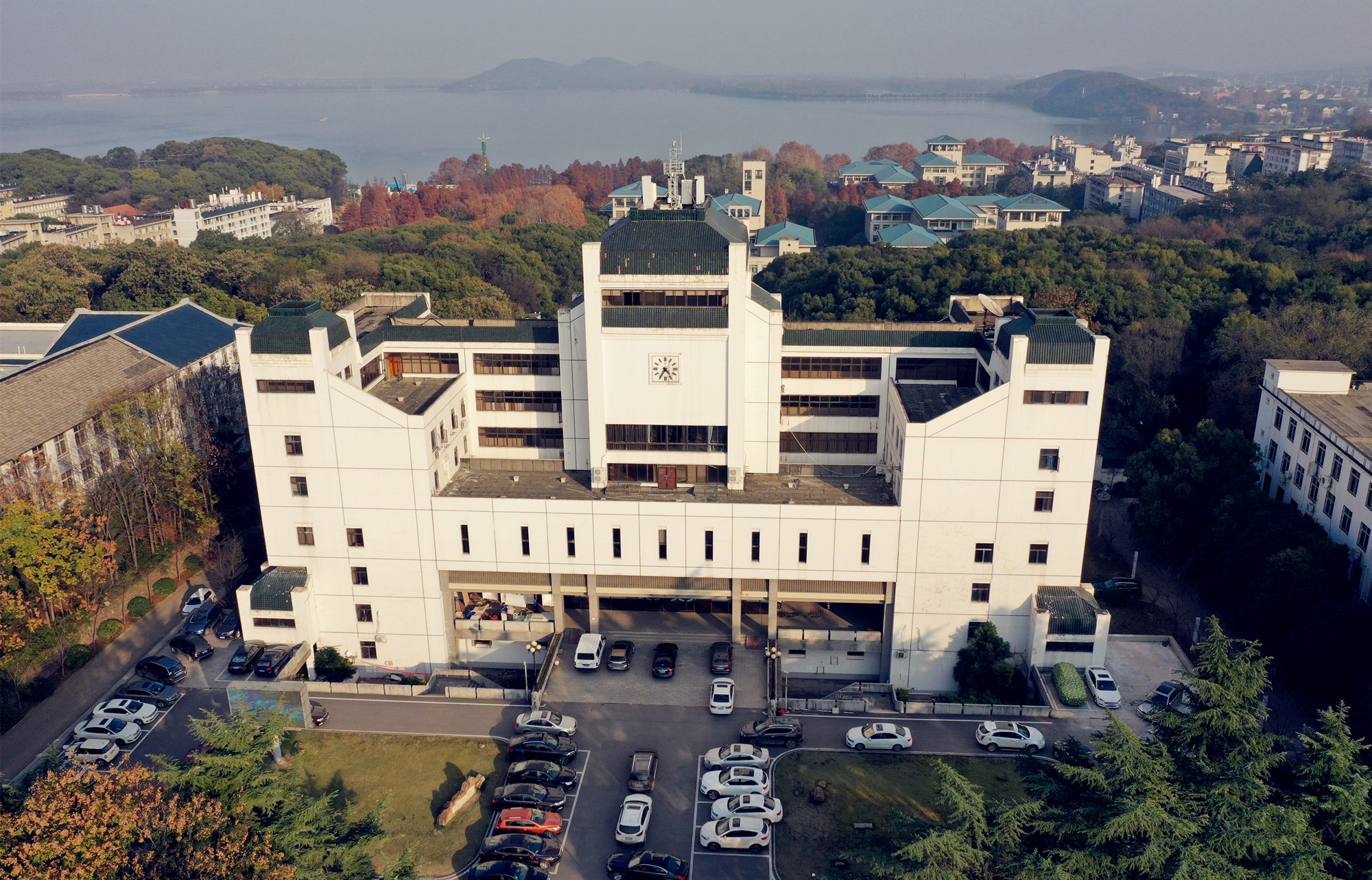 Wuhan University Humanities Building